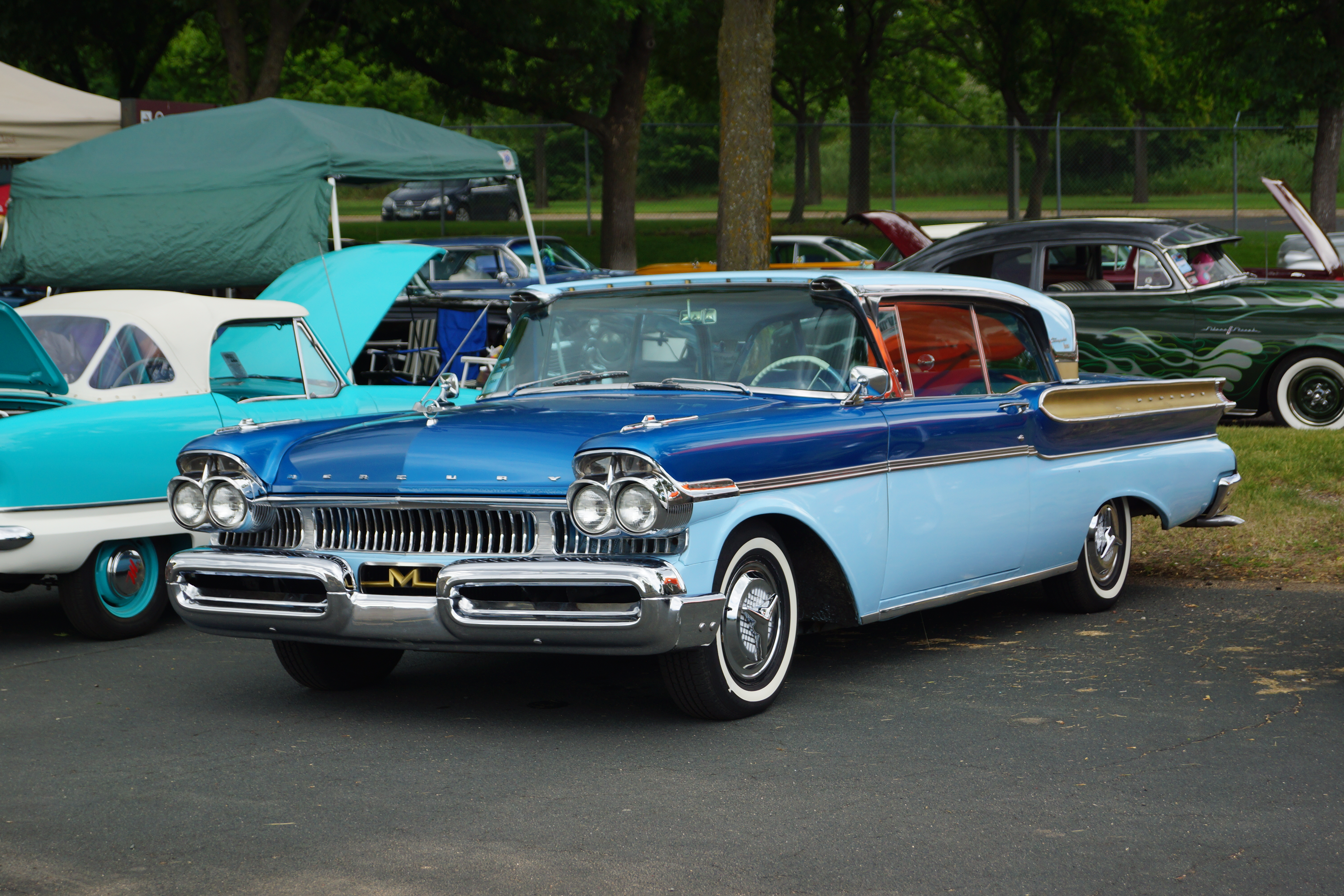 Minnesota Street Rod Association (MSRA) “BACK TO THE 50′s” 44th Annual Car Show June 23-25, 2017 Minnesota State Fairgrounds St. Paul Minnesota Click here for previous "Back to the 50's" pictures.. Click here for more car pictures at my Flickr site. Or here for my Car Crazy Tumblr site. Or on Twitter @DVS1mn.